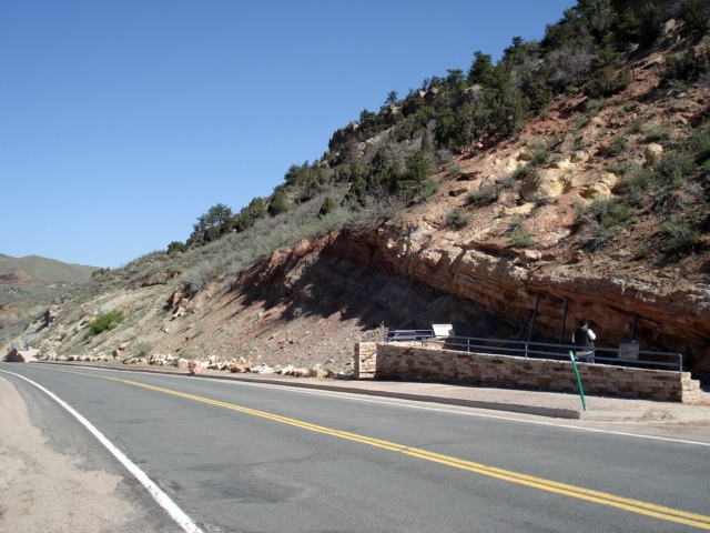 View of the Morrison Formation at the type locality along Alameda Parkway, west side of Dinosaur Ridge, west of Denver, Colorado.